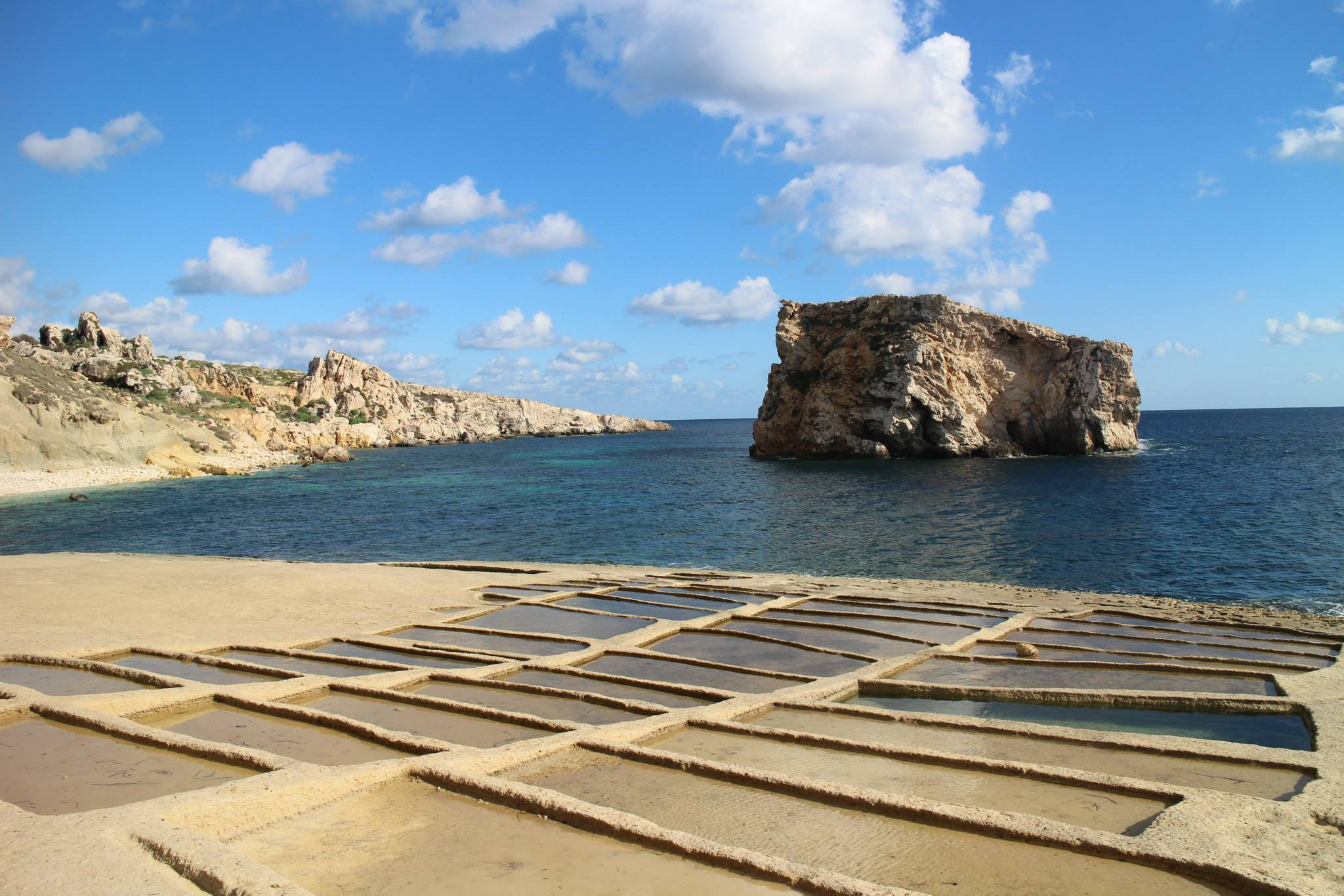 View of Ġebla tal-Ħalfa